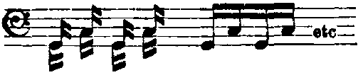 Musical notation showing a kettledrum rhythmical figure known as "double cross-beat".